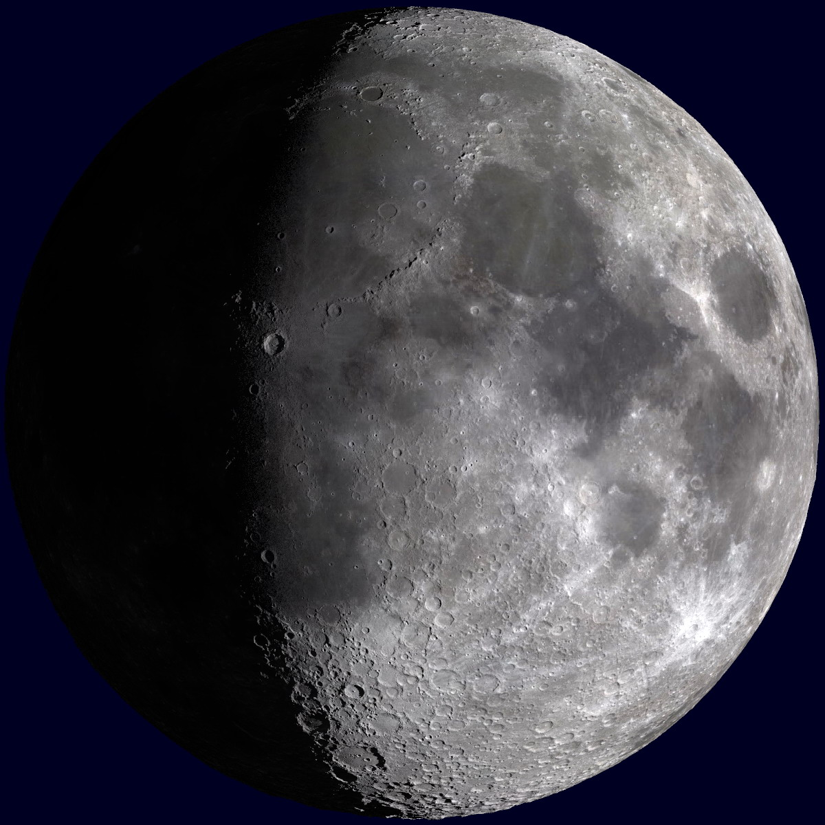 Near side lunar phase image set rendered by Jay Tanner - 2014. Size : 1200x1200 pixels Format : JPEG Author : Jay Tanner - 2014 License : These images are released under the provisions of the Creative Commons Attribution-ShareAlike 3.0 license. The image set consists of 361 images of the geocentric moon with 3D relief at 1-degree intervals of phase measured positively counterclockwise around the sky, eastward, from 0 to 360 degrees. Quarter Phase Legend: New Moon = 0/360 degrees First Quarter = 90 Full Moon = 180 Last Quarter = 270